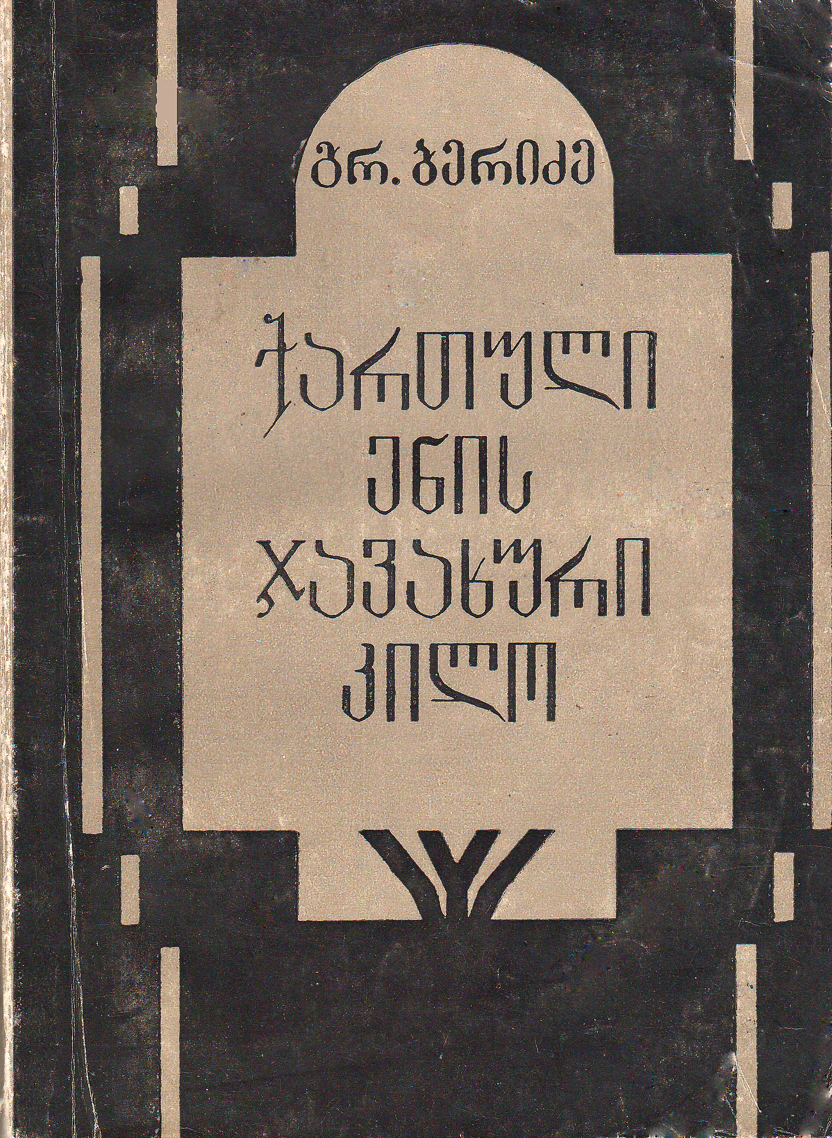 Javakhian Dialect of Georgian Language, Gr. Beridze, "Sabchota Sakartvelo", Tbilisi, 1988